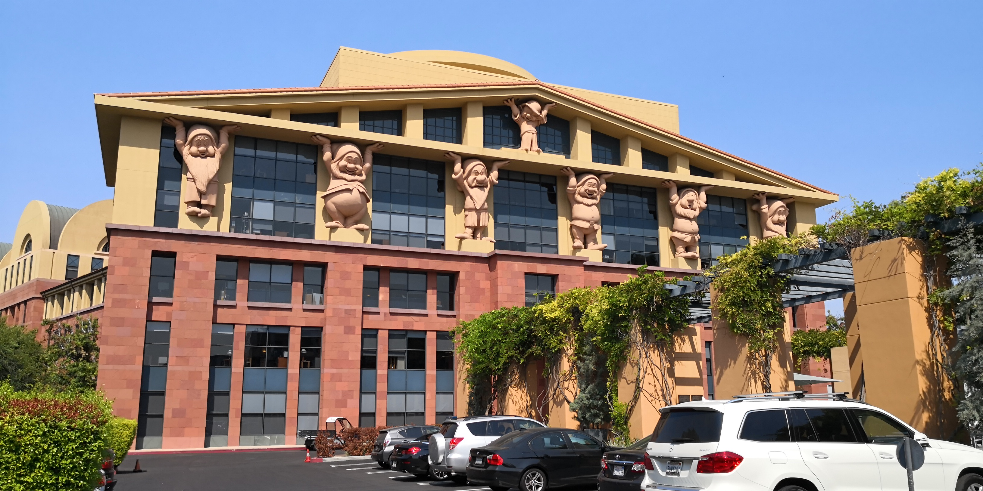 The Walt Disney Company office in Burbank, Ca (USA)